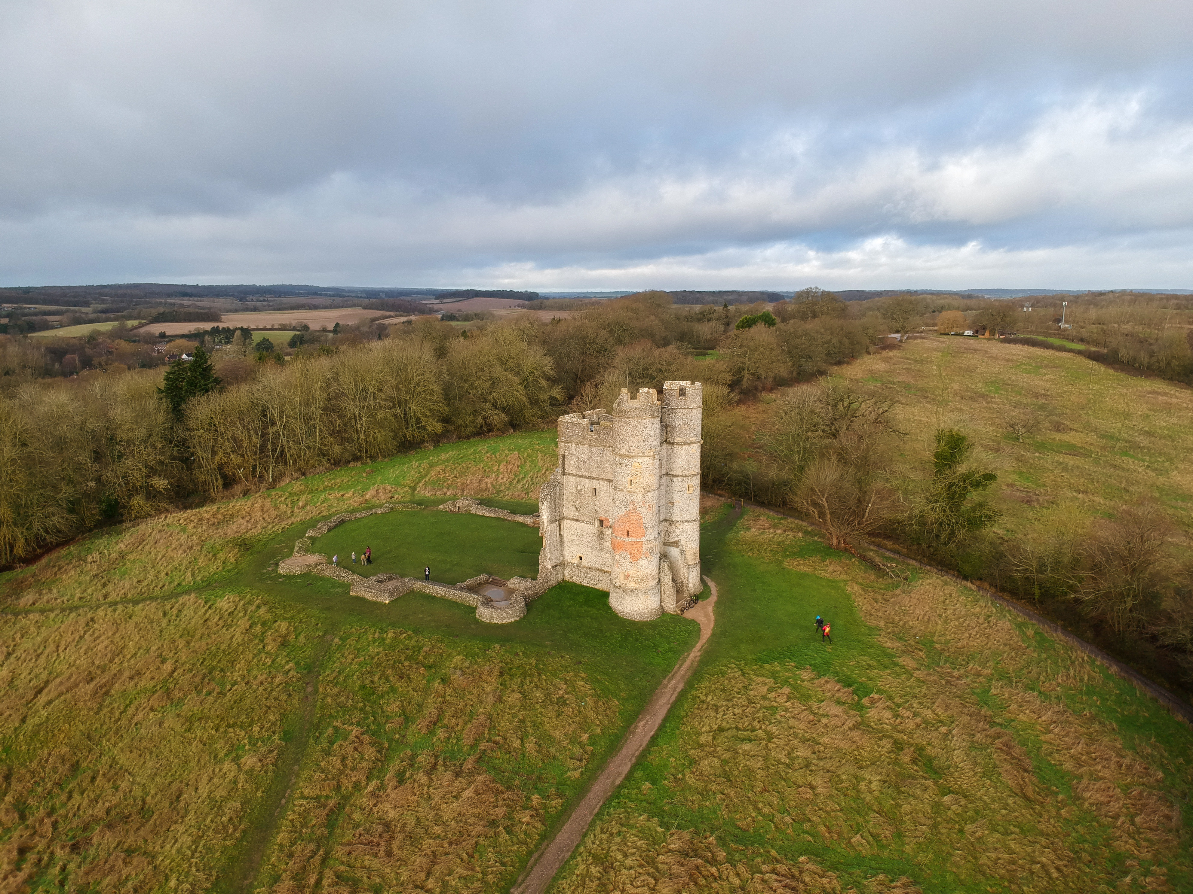 Aerial photo of Donnington Castle, Newbury, Berkshire. Taken on 12th January 2020